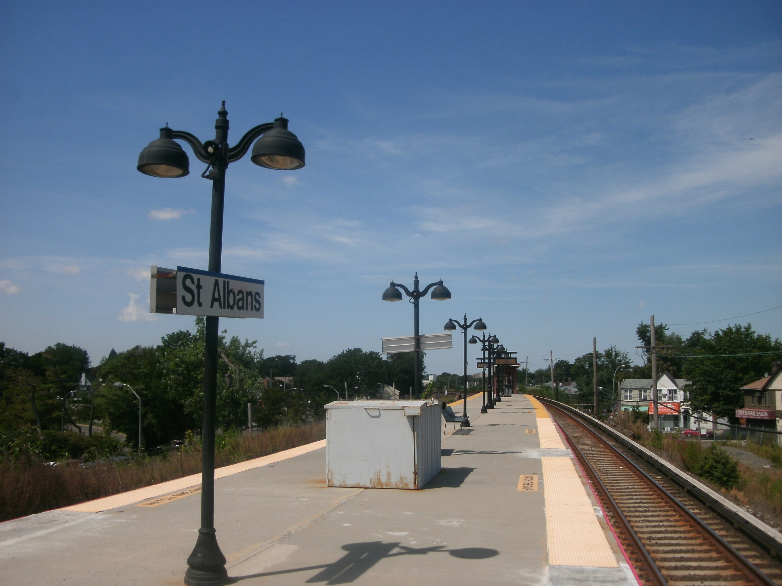 The St. Albans station of the Long Island Rail Road in St. Albans, Queens, New York.